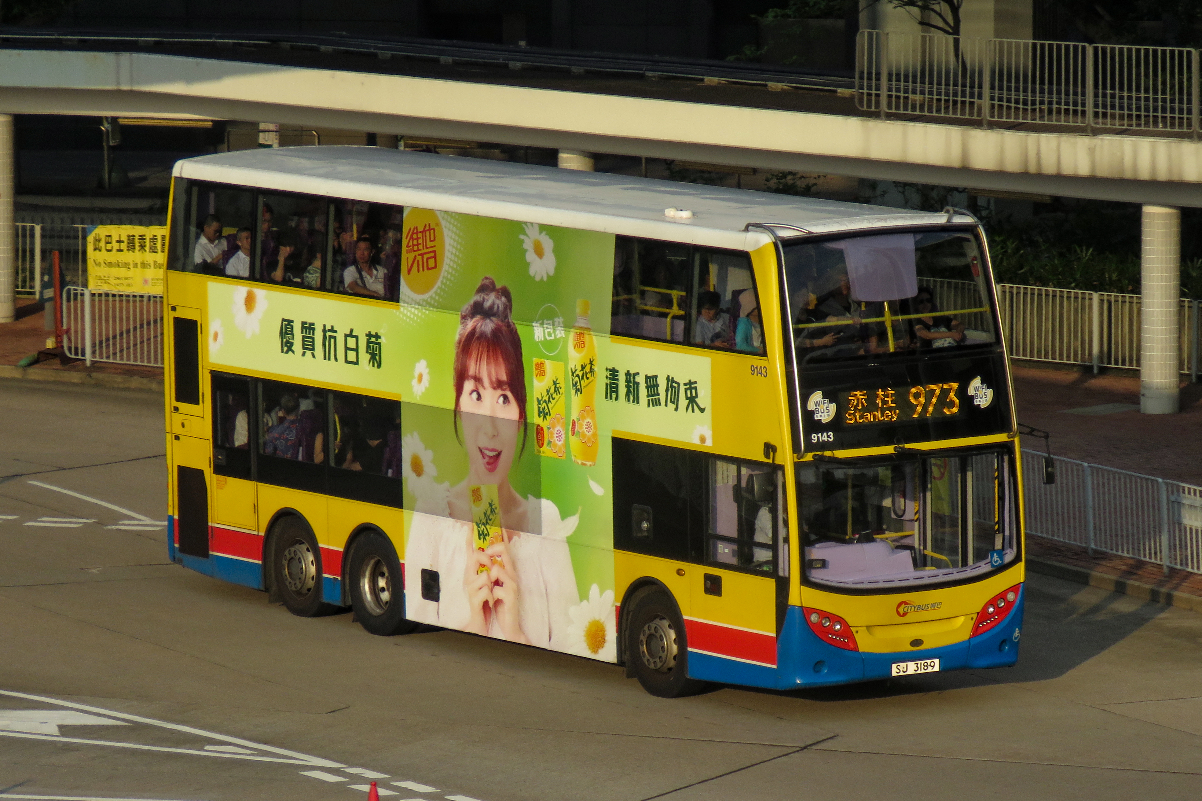 With Vita Chrysanthemum Tea banners.